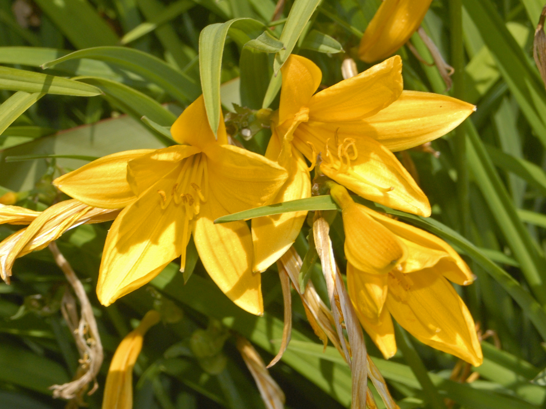 Hemerocallis citrina at the Jardin des Plantes, Paris